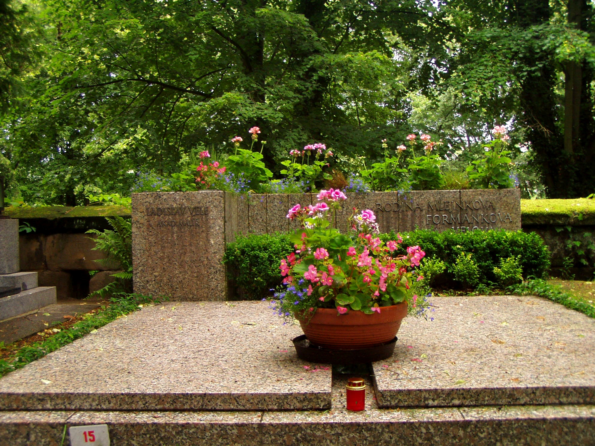 Grave of czech painter Ladislav Vele